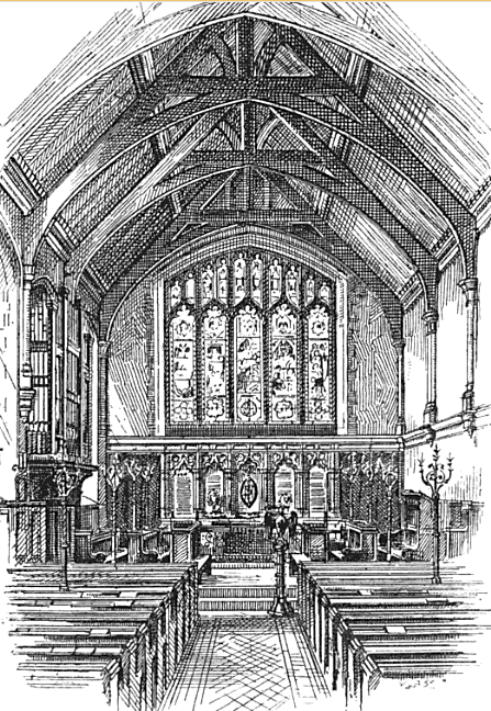 Interior of Monmouth School Chapel in Monmouth, Monmouthshire, Wales, 1865